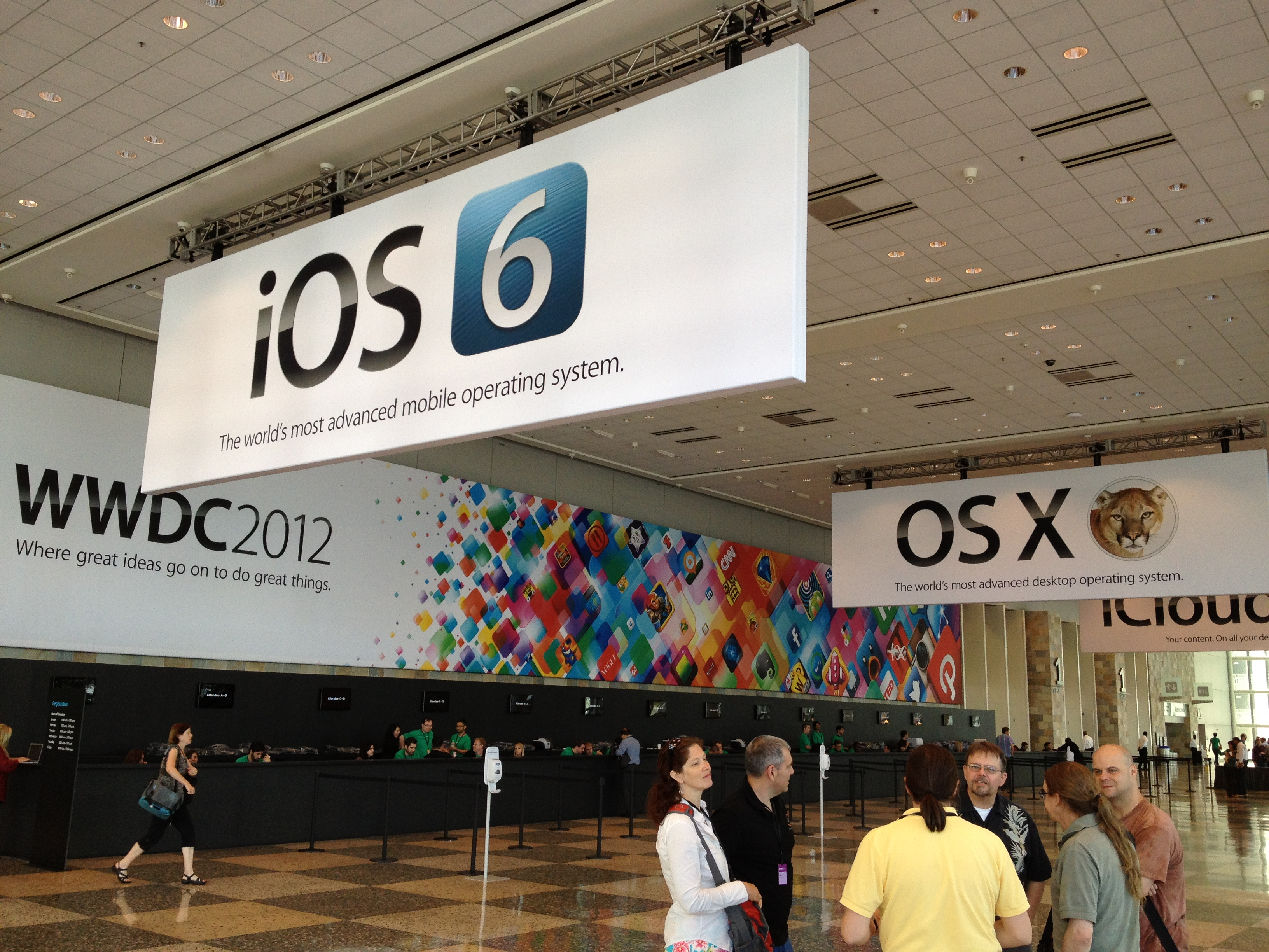 The inside of Moscone Center during WWDC 2012.